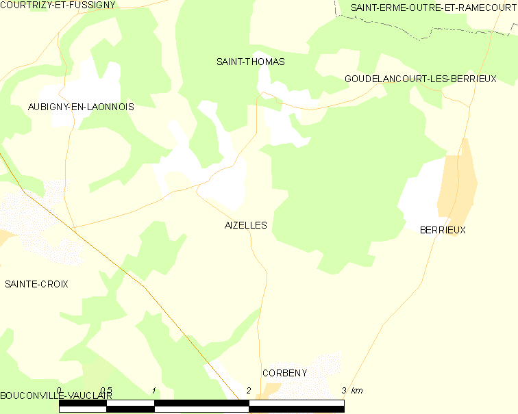 Map of French commune: Aizelles Map commune FR insee code 02007.png